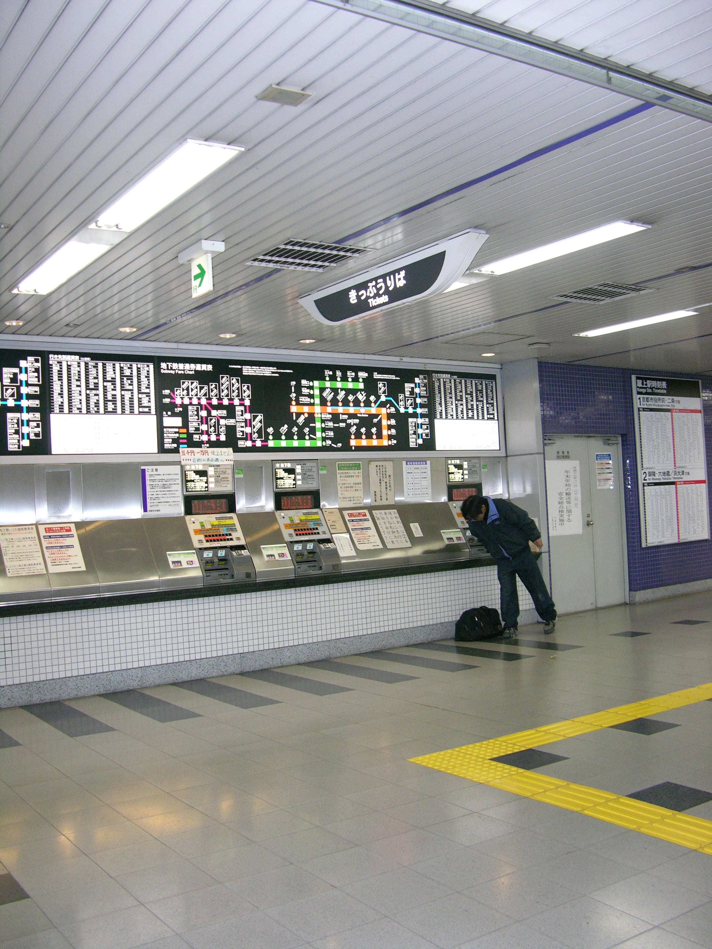 Author: Zaida Montañana. Taken on December 17, 2005, using a Nikon coolpix 8 MPixels, at Keage station, Kyoto.